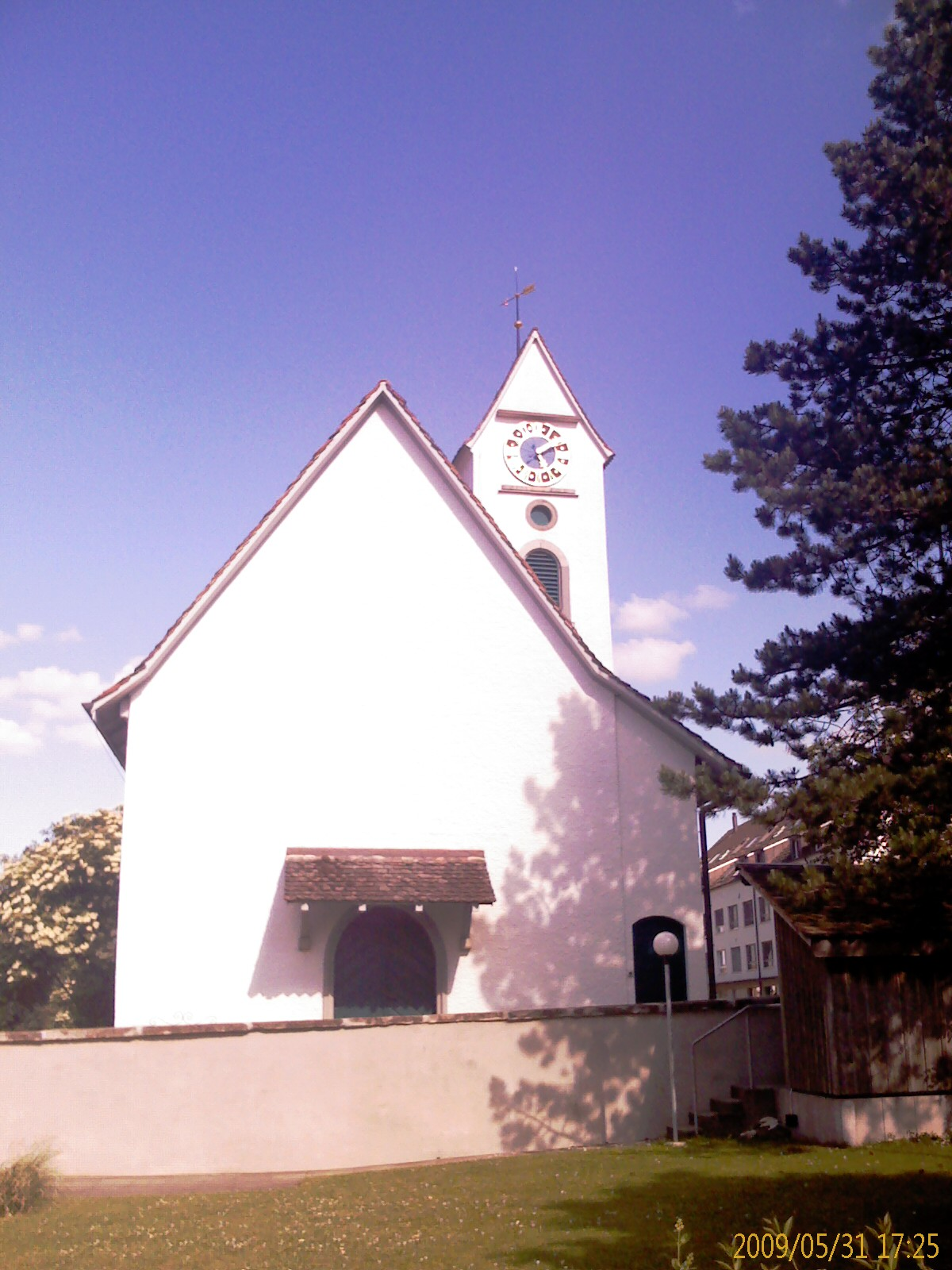 Church of Dällikon, canton of Zürich, SwitzerlandEsperanto: Preĝejo de Dällikon, Kantono Zuriko, Svislando